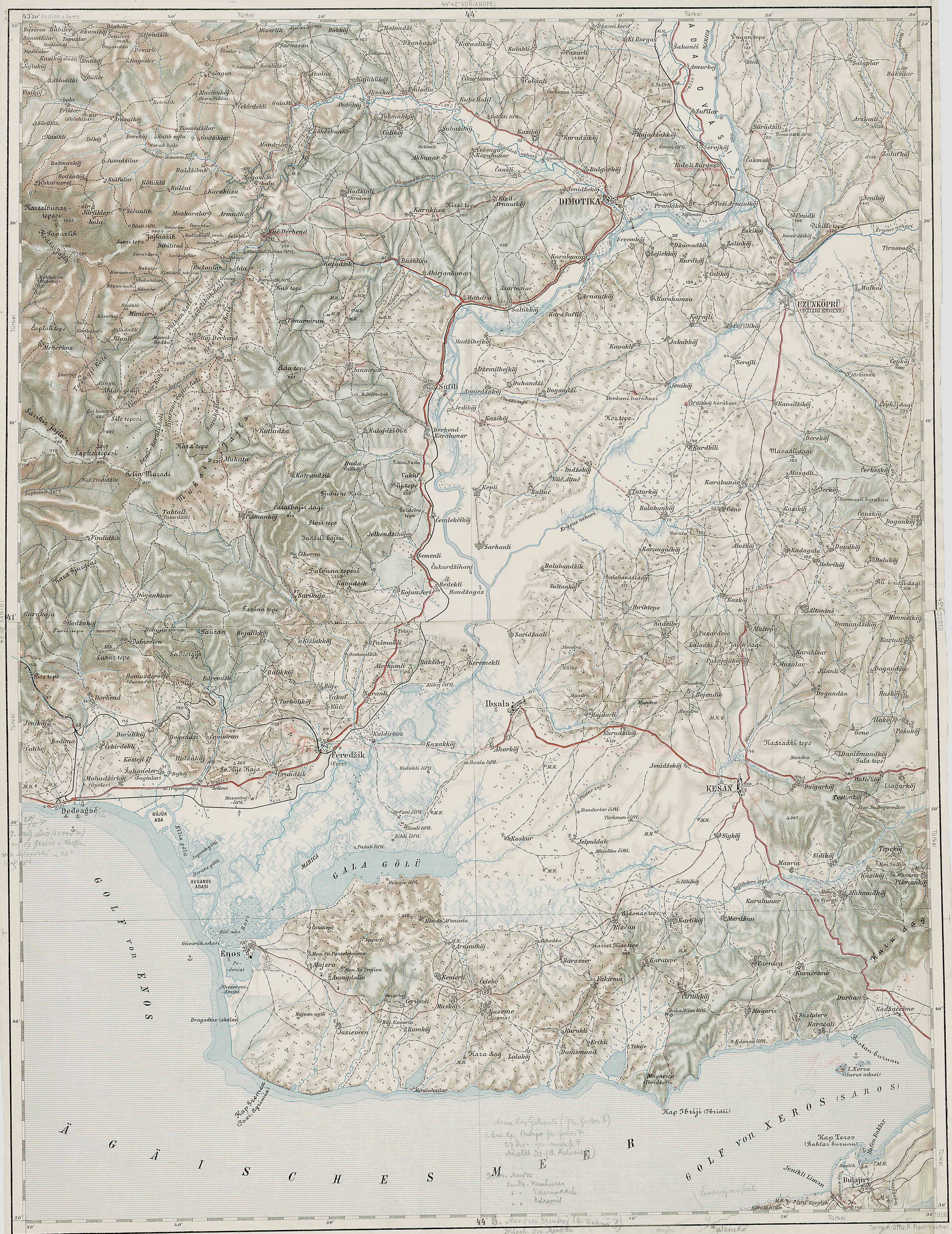 3rd Military Mapping Survey of Austria-Hungary - Dimotika